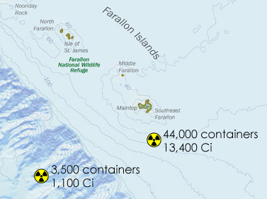 Modification of Image:Cordell Bank NMS map.jpg (created by NOAA) with general locations of nuclear waste dumping sites indicated. Over time many of the drums have moved and are not as isolated as these sites indicate; additionally it is potentially the case that some of the waste was never dropped at the exact locations to begin with. According to a 1980 report by the Environmental Protection Agency, approximately 47,500 containers, 55 gallon steel drums, were dumped in the vicinity of the Farallones, with a total estimated radioactive activity of 14,500 Ci. All but 3,500 of these were dumped at 37Âº37'N, 123Âº17'W; the rest were dumped at 37Âº38'N, 123Âº08'W. These two locations are indicated on the map above. Information on the dumping comes from: U.S. Environmental Protection Agency, Radioactive Waste Dumping Off the Coast of California, Fact Sheet (14 August 1980). The little radioactive signs are from Image:Radiation warning symbol.svg, which is licensed as PD-self.